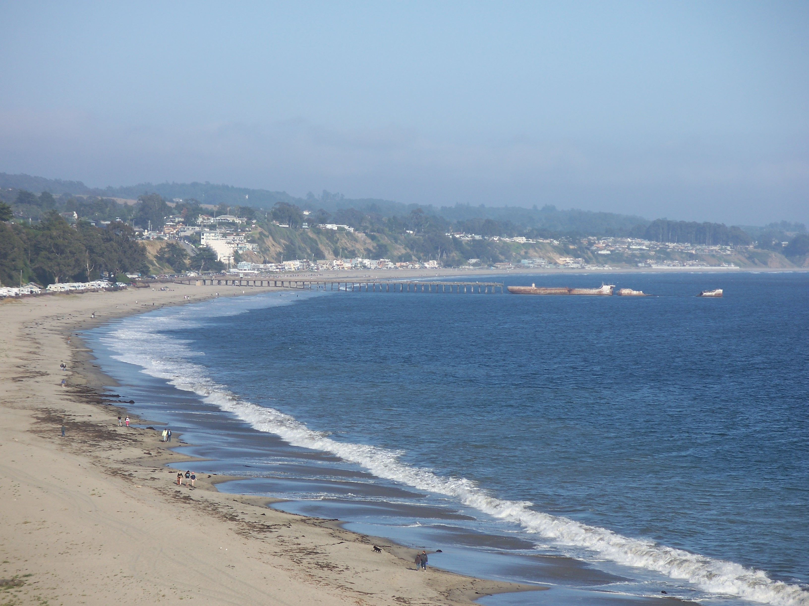 Seacliff State Beach in Aptos from New Brighton State Beach in Capitola, California, USA.